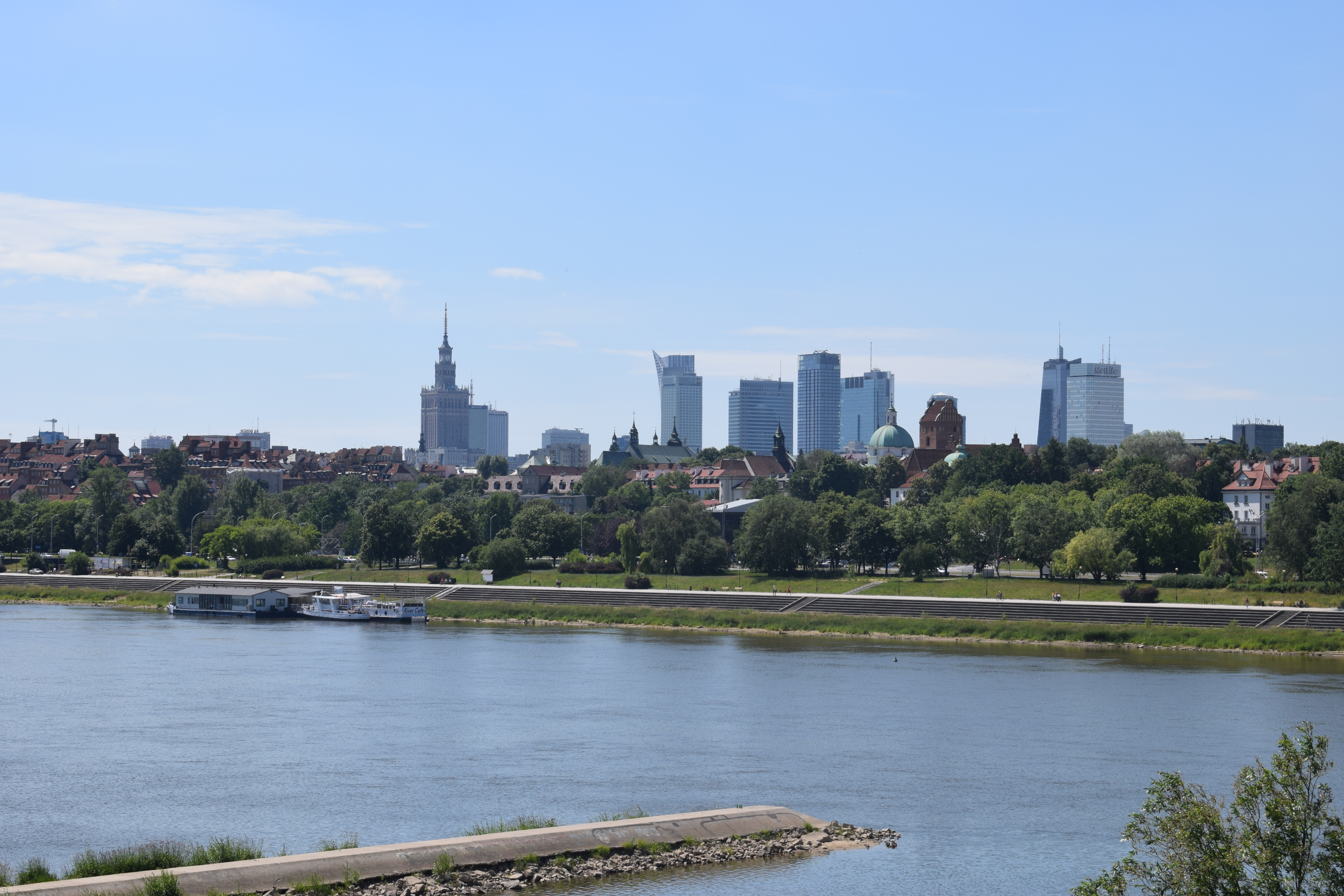 Warsaw